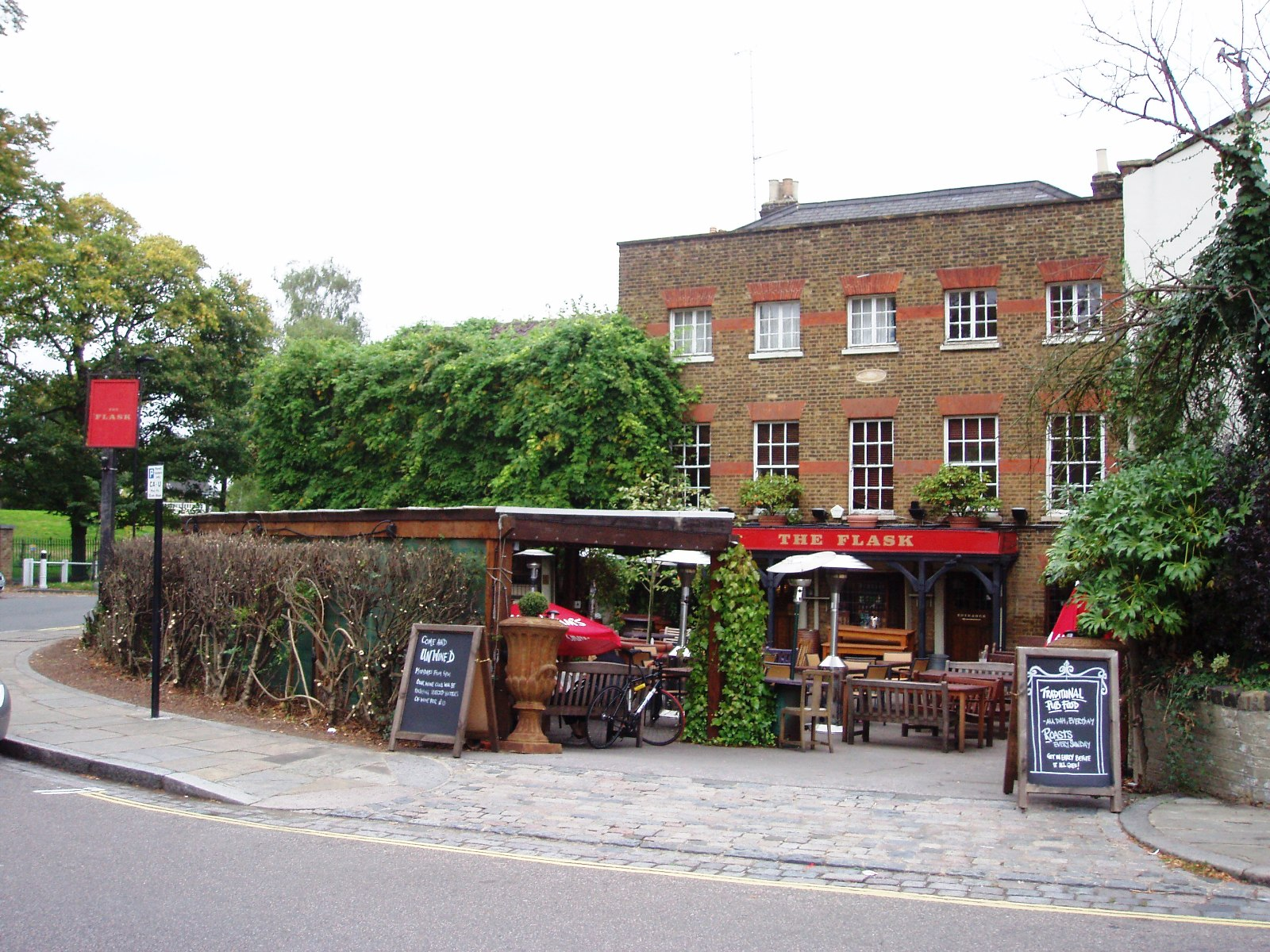 A lovely pub with plenty of smaller rooms and good selection of beer. (It has as of Jan 2009 been purchased by Fuller's.) Address: 77 Highgate West Hill (formerly listed at South Grove). Former Name(s): The Flask Tavern. Owner: Fuller Smith Turner (website); Mitchells and Butlers (former); Ind Coope (former). Links: London Pubology